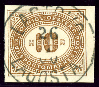 Austrian KK 10 heller tax stamp cancelled bilingual LAGOSTA-LASTOVO in 1900 (Dalmatia, croatia)